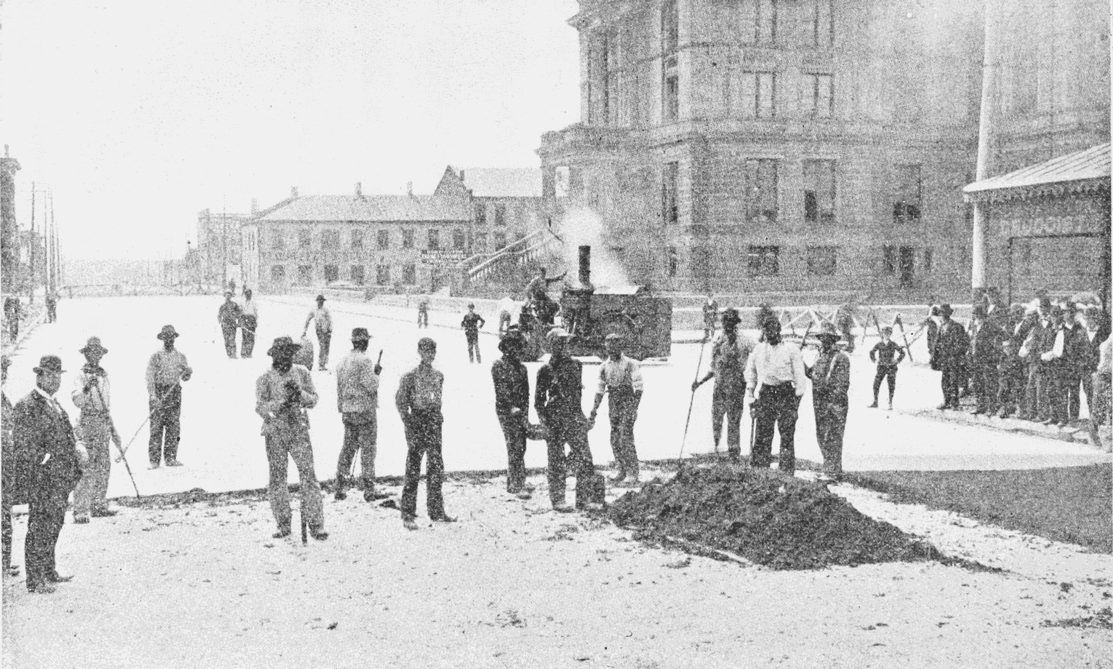 Laying asphalt surface on Ohio street Terre Haute 1897